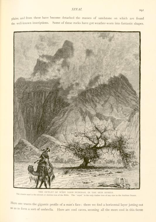 Wood engravings . The outlet of Wâdy Nagb Buderah, in the Seih Sidreh. The Acacia seyal is the shittah or shittim tree of the Bible. The "seyal" is the only timber tree of any size in the Arabian desert.